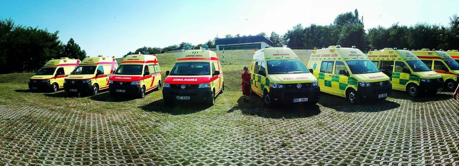 ZZSUK Zdravotnická Záchranná služba Ústeckého kraje